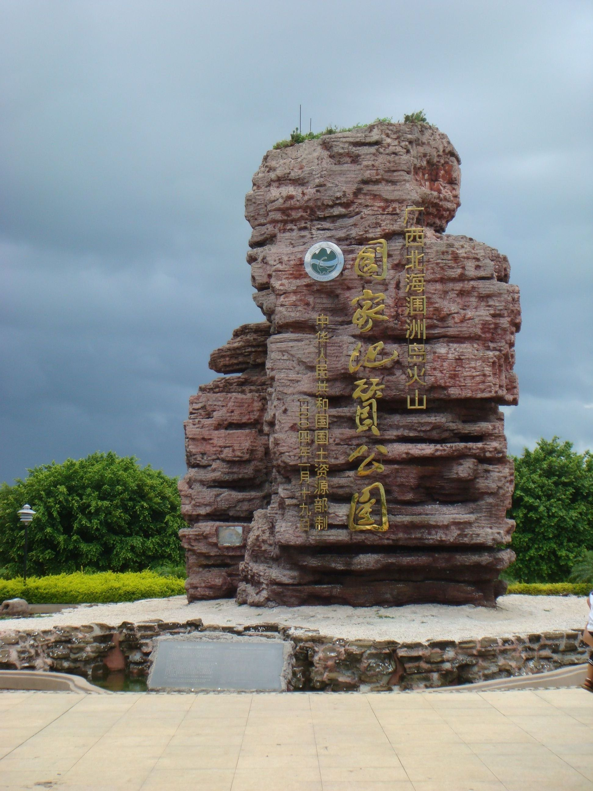 A natural Limestone rock formation stele — in Chinese National Geological Park on Weizhou Island, China